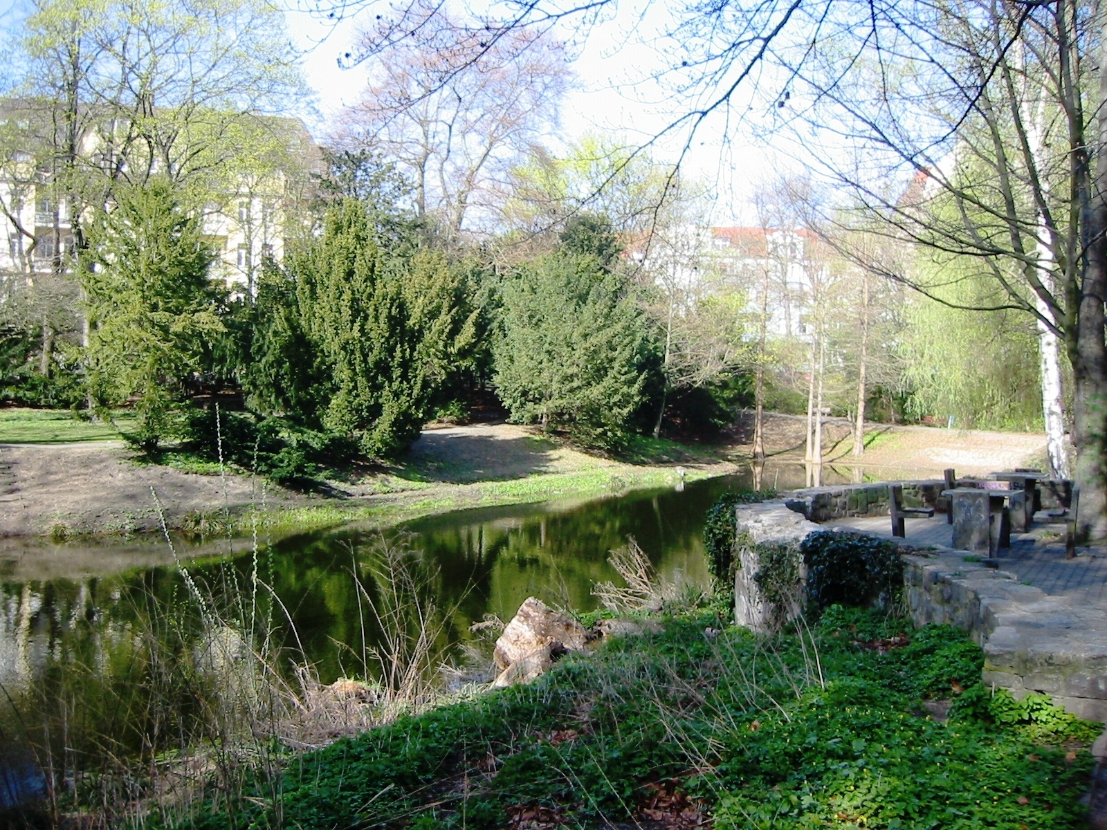 Lehnepark in Berlin-Tempelhof.